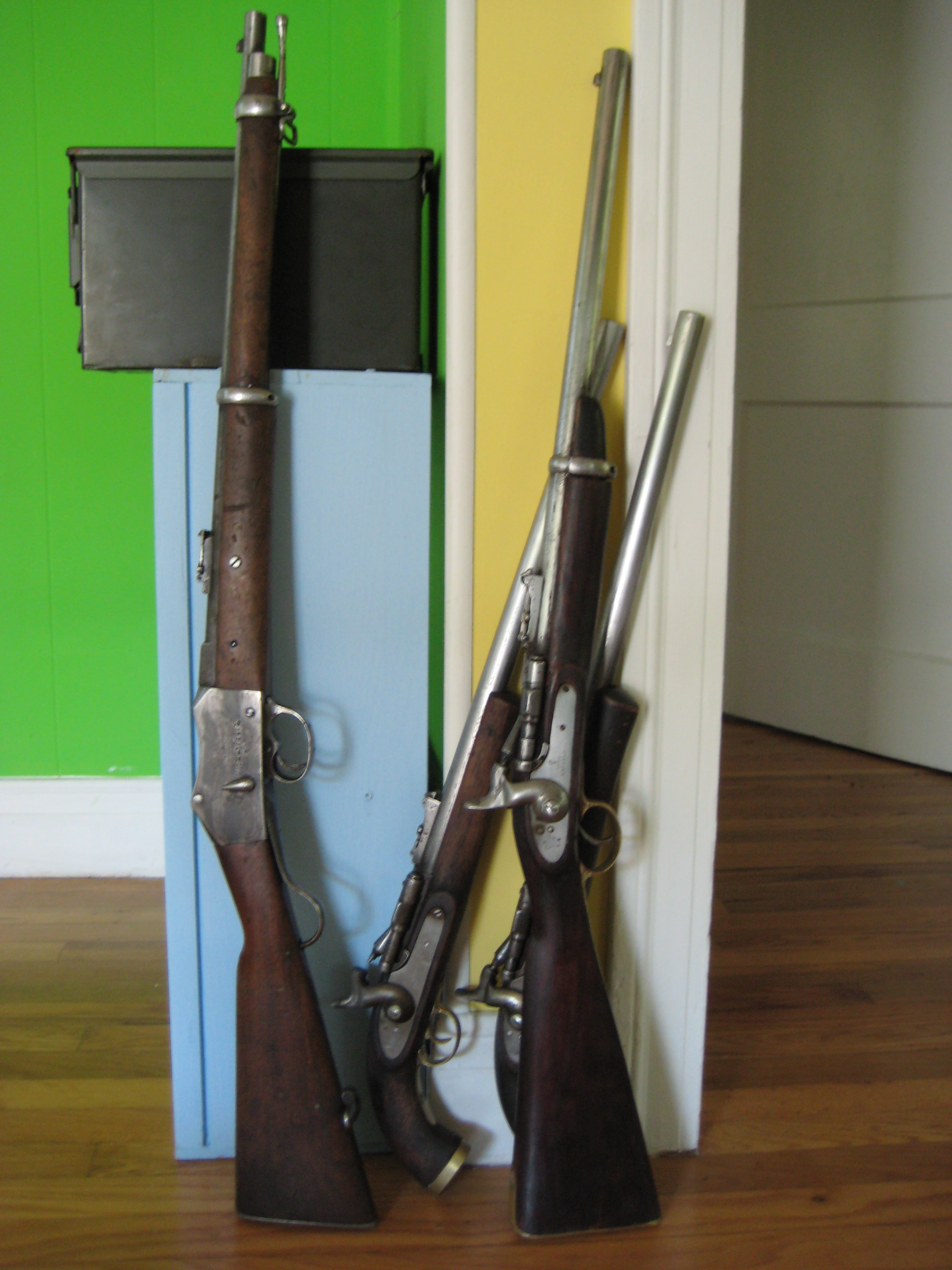 A Martini carbine, Snider carbine and sawed-off Snider pistol. Khyber Pass copies purchased aboard Bagram Airfield, Afghanistan, 2008.